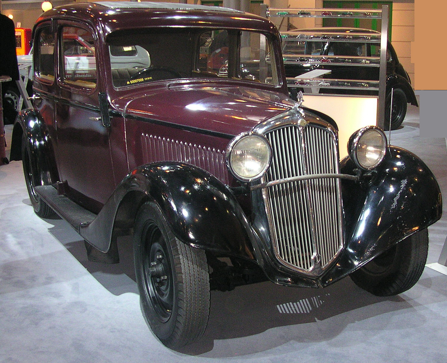 Essen Techno-Classica 2007, Škoda 420 Standard